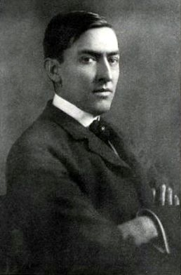 Caption: "The Most Recent Portrait of George Ade"